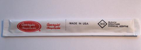 Georgia Chopsticks, which turns out two million pairs each day, expects to ramp up production to 10 million by the end of the year.